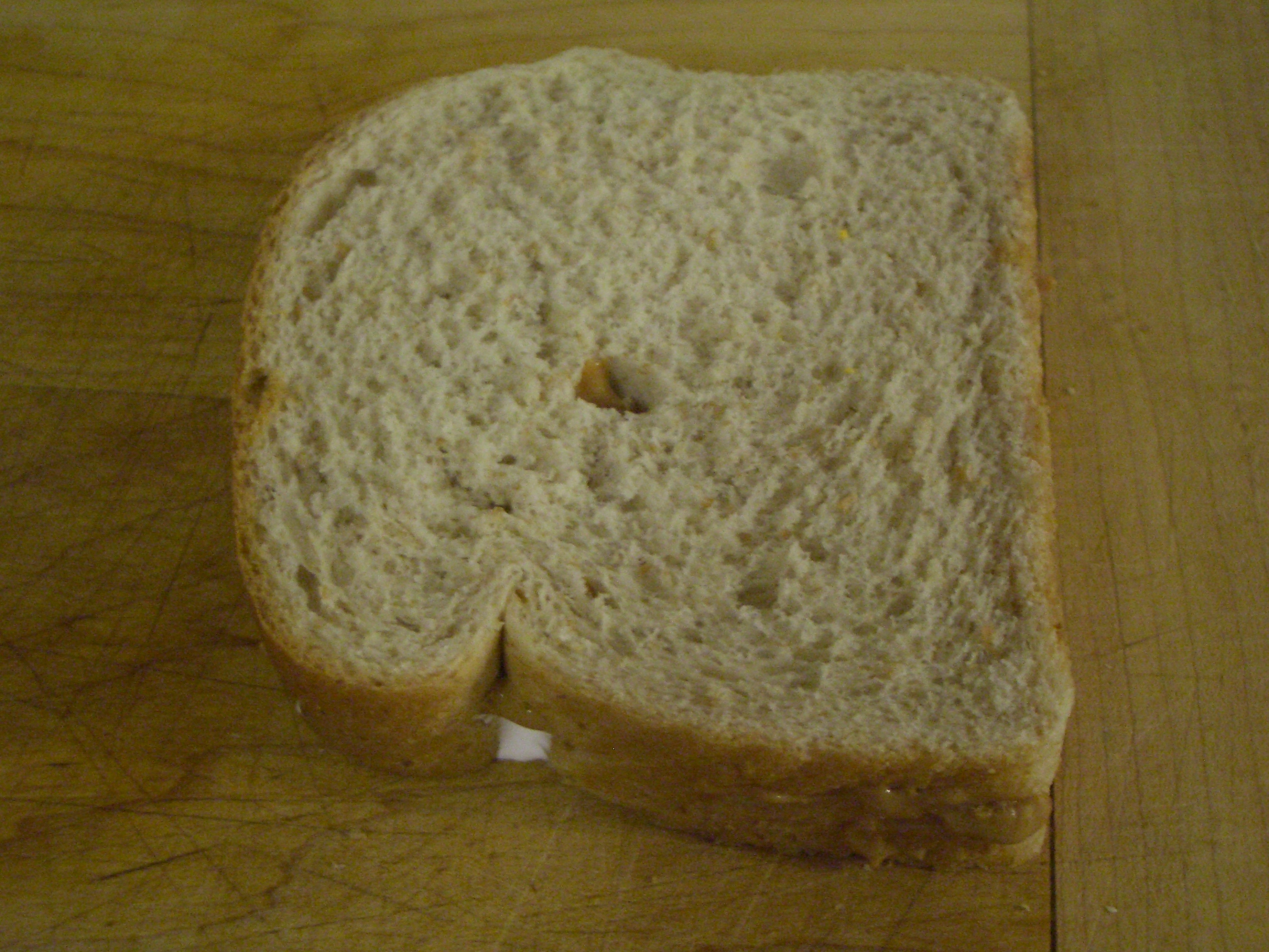 Finished fluffernutter.